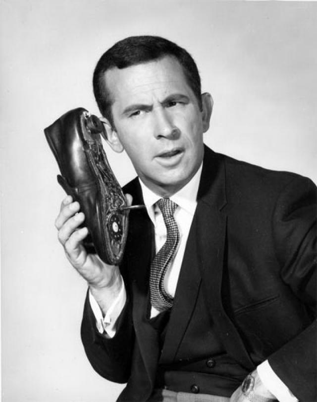 Photo of Don Adams as Maxwell Smart, with infamous "Shoe phone". On the first photo, there's a date but no author information. On the second, GAC is listed as Adams' management was using the image for publicity purposes, but the seller did not offer a scan of the photo back. Combining the two results in both an author and a useful date for PD-pre 1978 license purposes. Neither of these have any copyright marks.